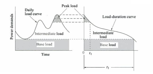 base load, peak load & intermediate load for power plant